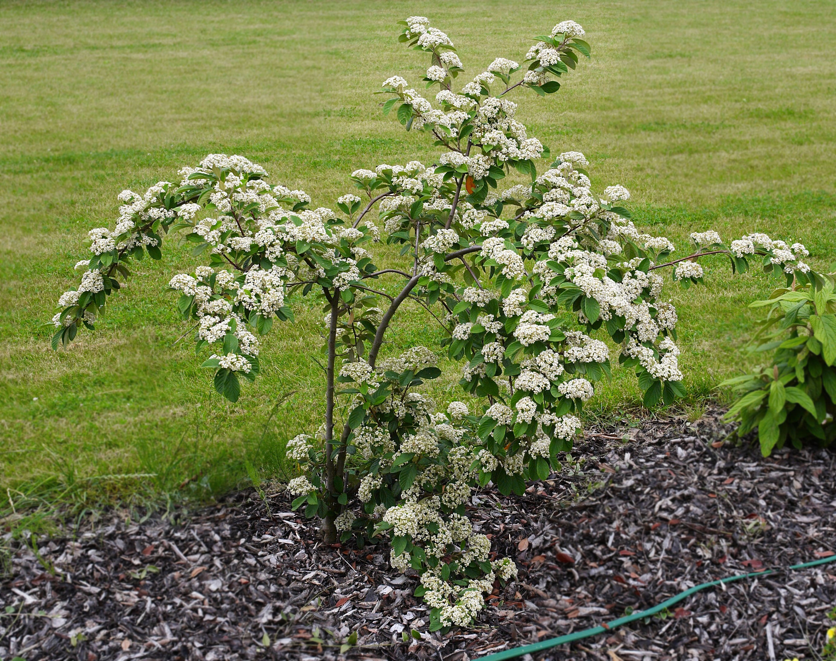 Cotoneaster lacteus Other photos of the same plant